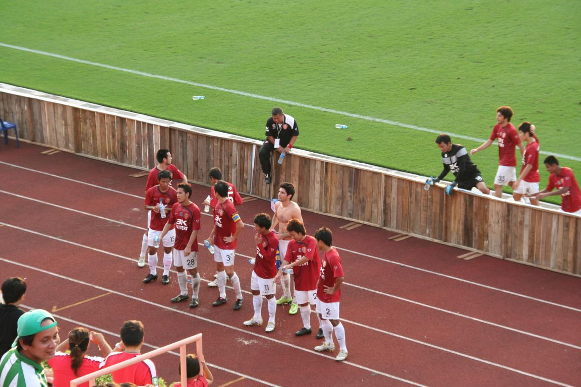 BEC-Tero Sasana after the Super Cup 2009